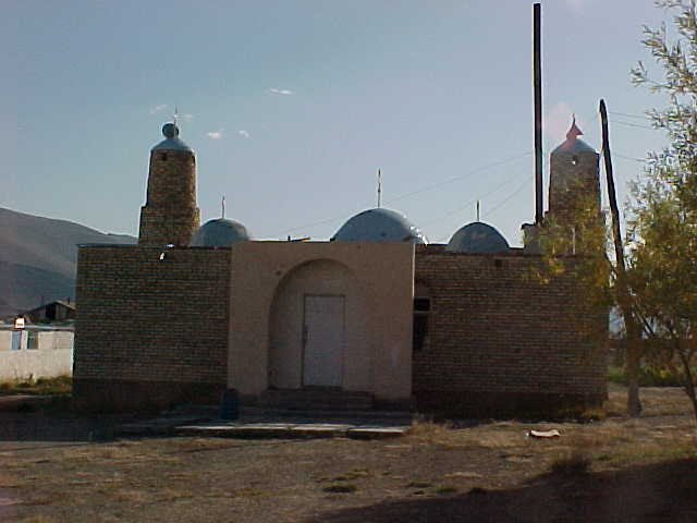 Muslim mosque in the center of the Tolbo sum (district) in the Bayan-Ölgii aimag of Mongolia, September 2003. Photo by Gantuya Olhunoud.